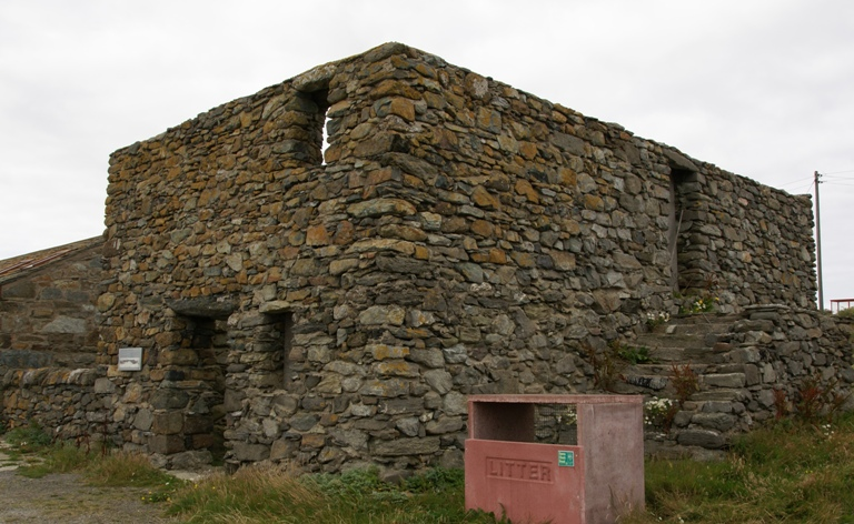 Greenwell's Booth, Uyeasound, Unst (Shetland, Scotland)